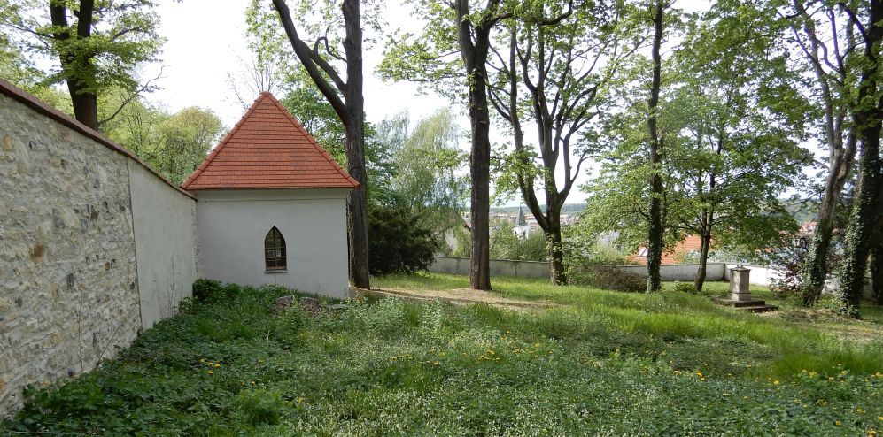 Prague 6 - Liboc, former cemetery